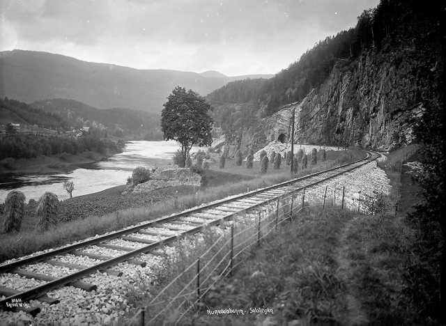 The Numedal Line at Selsteigen in Rollag, Norway